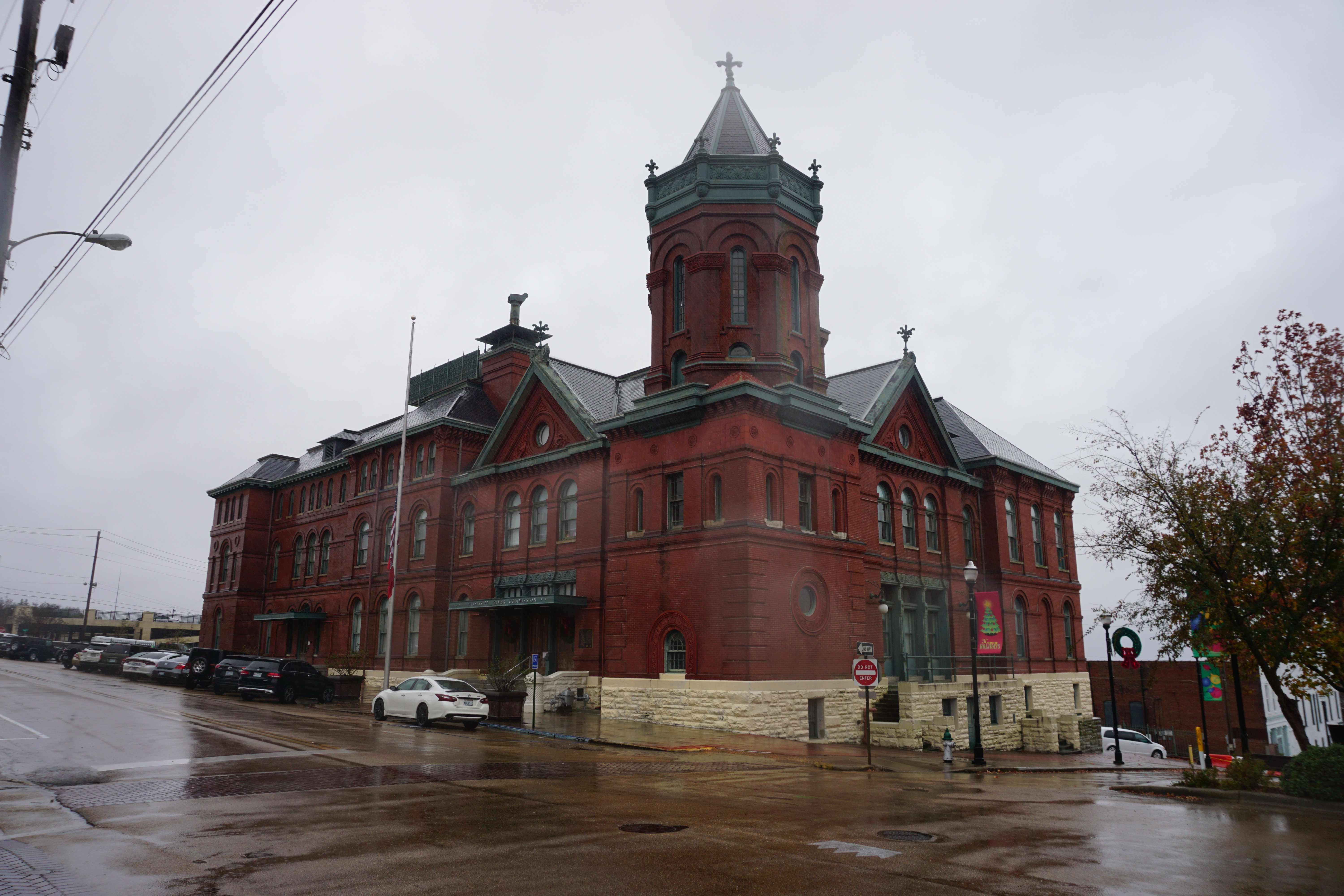 The Mississippi Valley Division building in Vicksburg, Mississippi (United States).